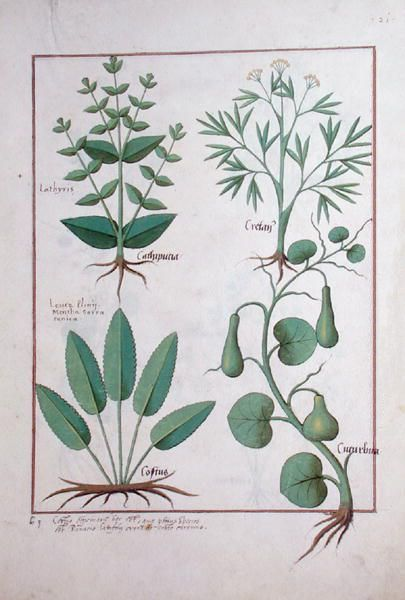 Euphorbia Lathyris, Beechwort, Mint and Fig, illustration from The Book of Simple Medicine by Matthaeus Platearius d.c.1161 c.1470